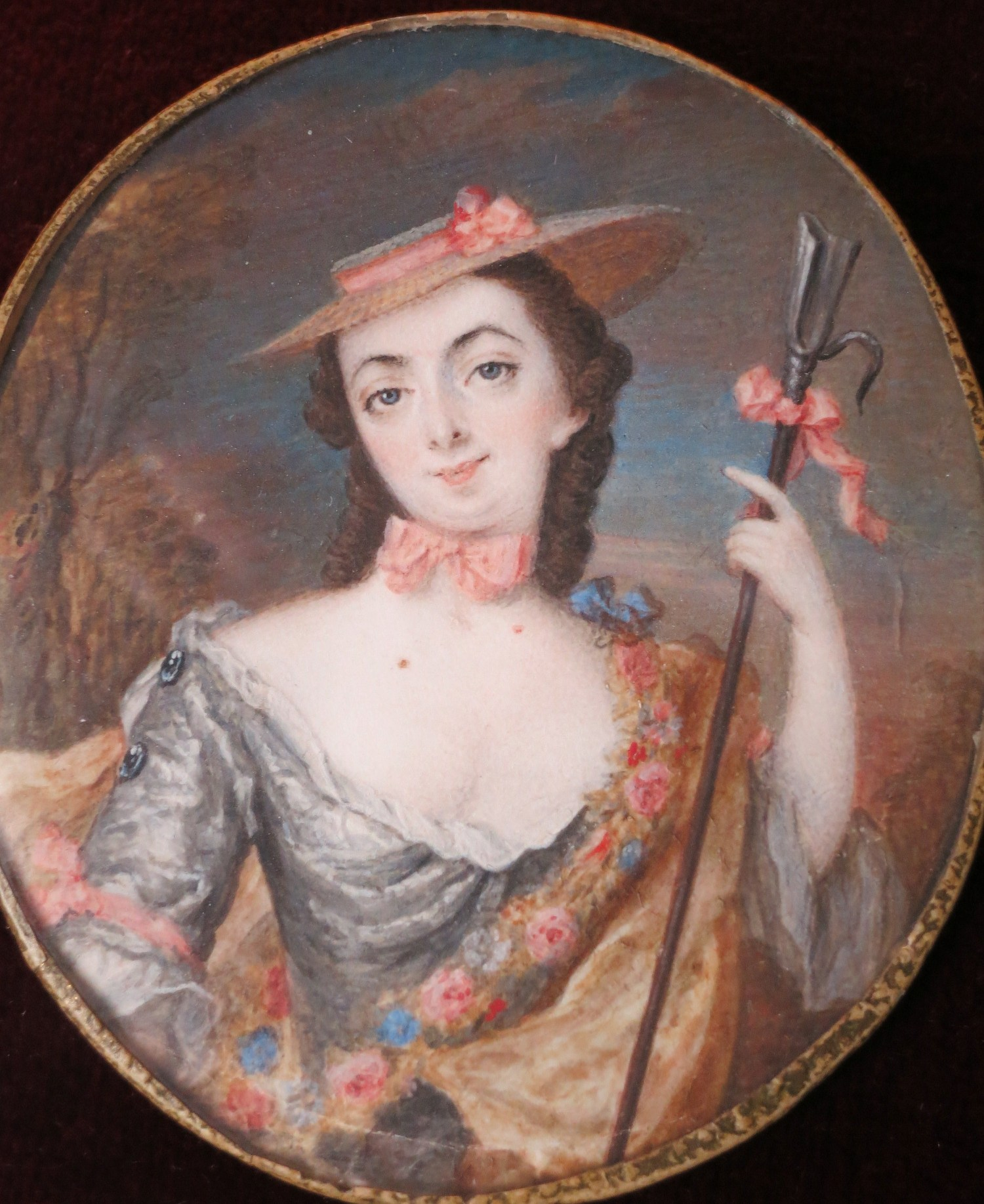 Portrait of Marie-Aurore de Saxe (1748-1821)